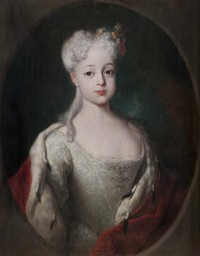 Portrait of Luise von Anhalt-Dessau (1709-1732), princess of Anhalt-Bernburg